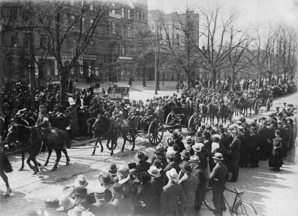 White parade in Helsinki.